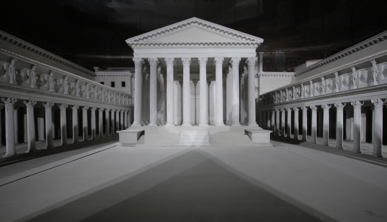 A model of the Forum of Augustus